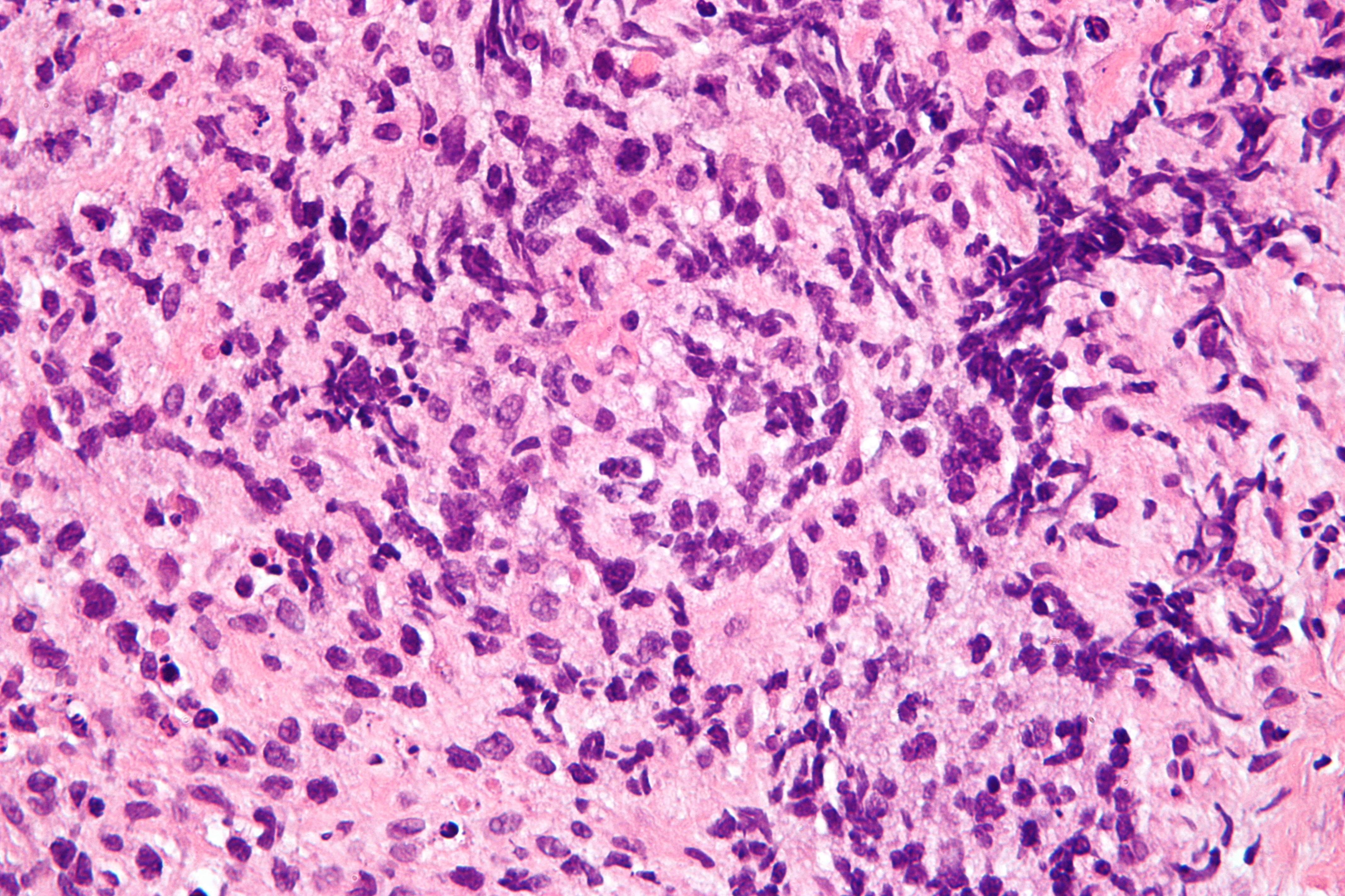 Very high magnification micrograph of a primary mediastinal large B-cell lymphoma. H&E stain. Core biopsy. Related images Intermed. mag. High mag. Very high mag.